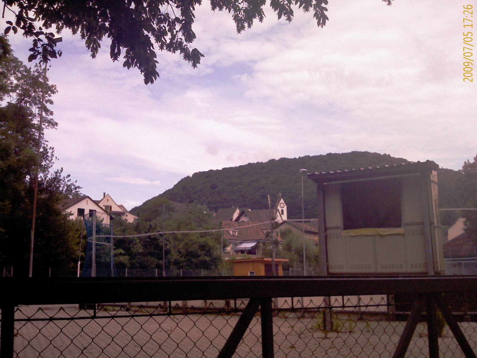 Rothenfluh, canton of Baselland, SwitzerlandEsperanto: Rothenfluh, Kantono Baseland, Svislando